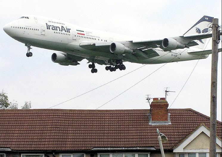 Iranair Boeing 747-100B (EP-IAM) flies across the roofs of Myrtle Avenue, on the approach to London (Heathrow) Airport.